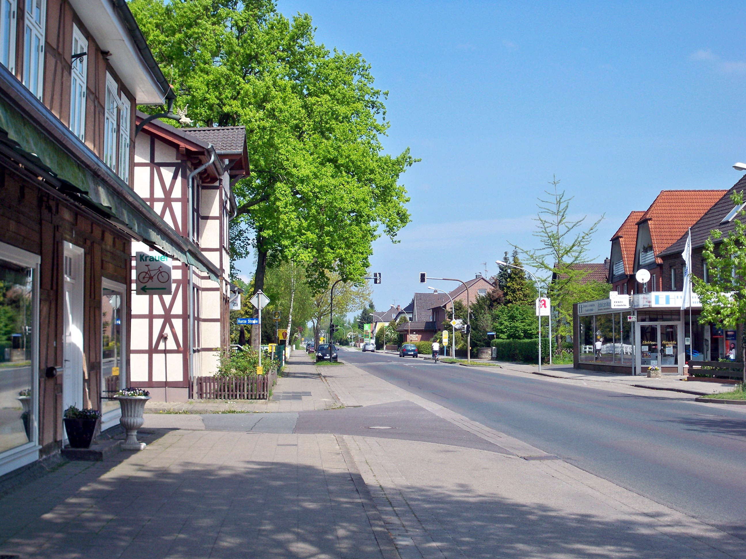 Rühen, Lower Saxony, main street, facing northwards